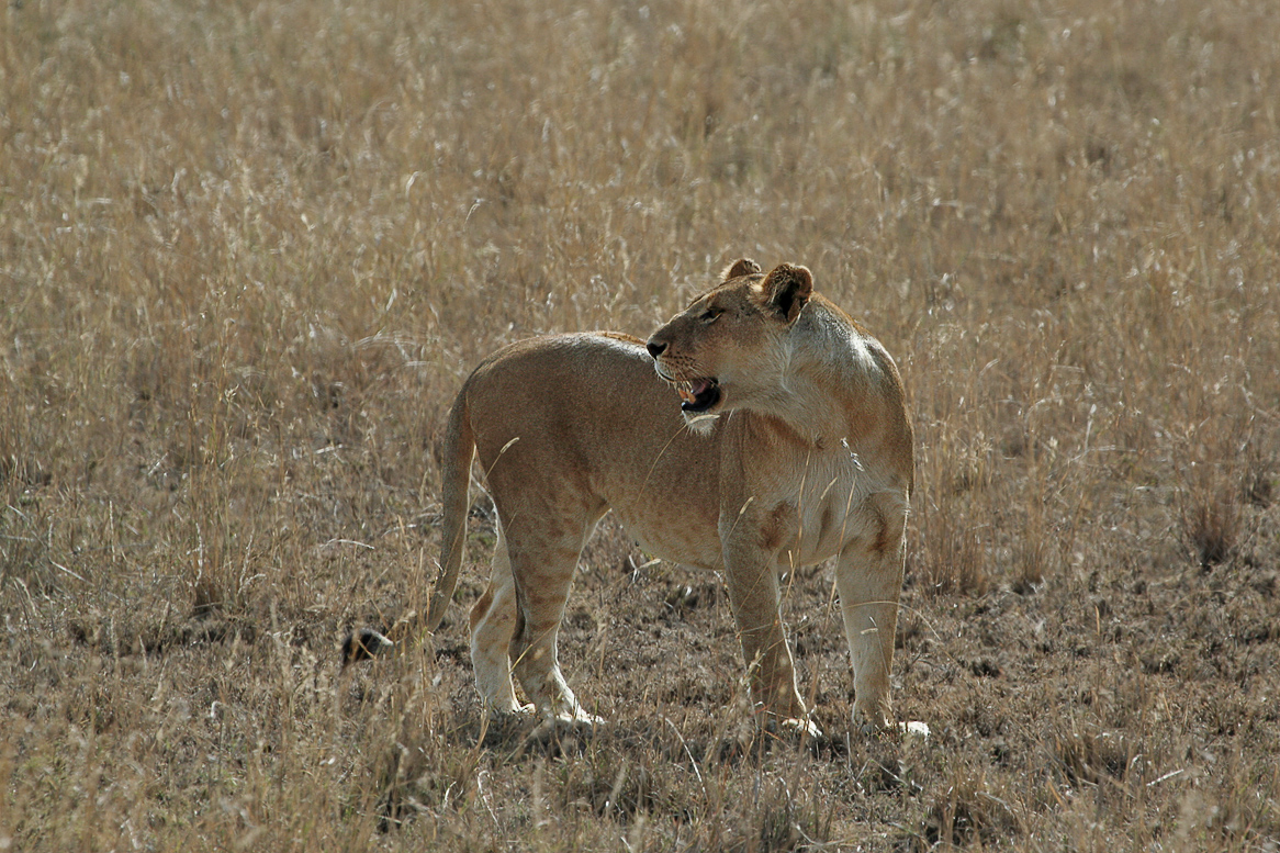 Taken by Schuyler Shepherd (unununium272) Canon 350D, 100-400mm f/4.5-5.6 L IS.